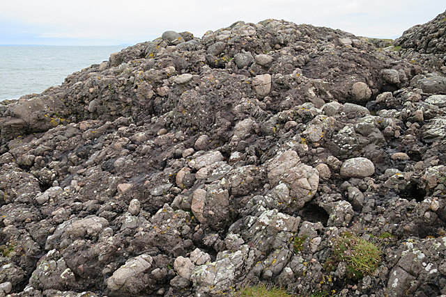 Conglomerate at Corsewall Point in Dumfries and Galloway in Scotland. This outcrop is part of the Corsewall Point Conglomerate Member of Late Ordovician age (about 450 million years old). The clasts (boulders) that make up the bulk of the rock are mostly granitic, suggesting that their origin was in an ancient continent, from which they tumbled into the depths to form new rock at the bottom of the ocean before being exhumed again during the collision of Avalonia (including England) with Laurentia (including Scotland) about 450 million years ago.